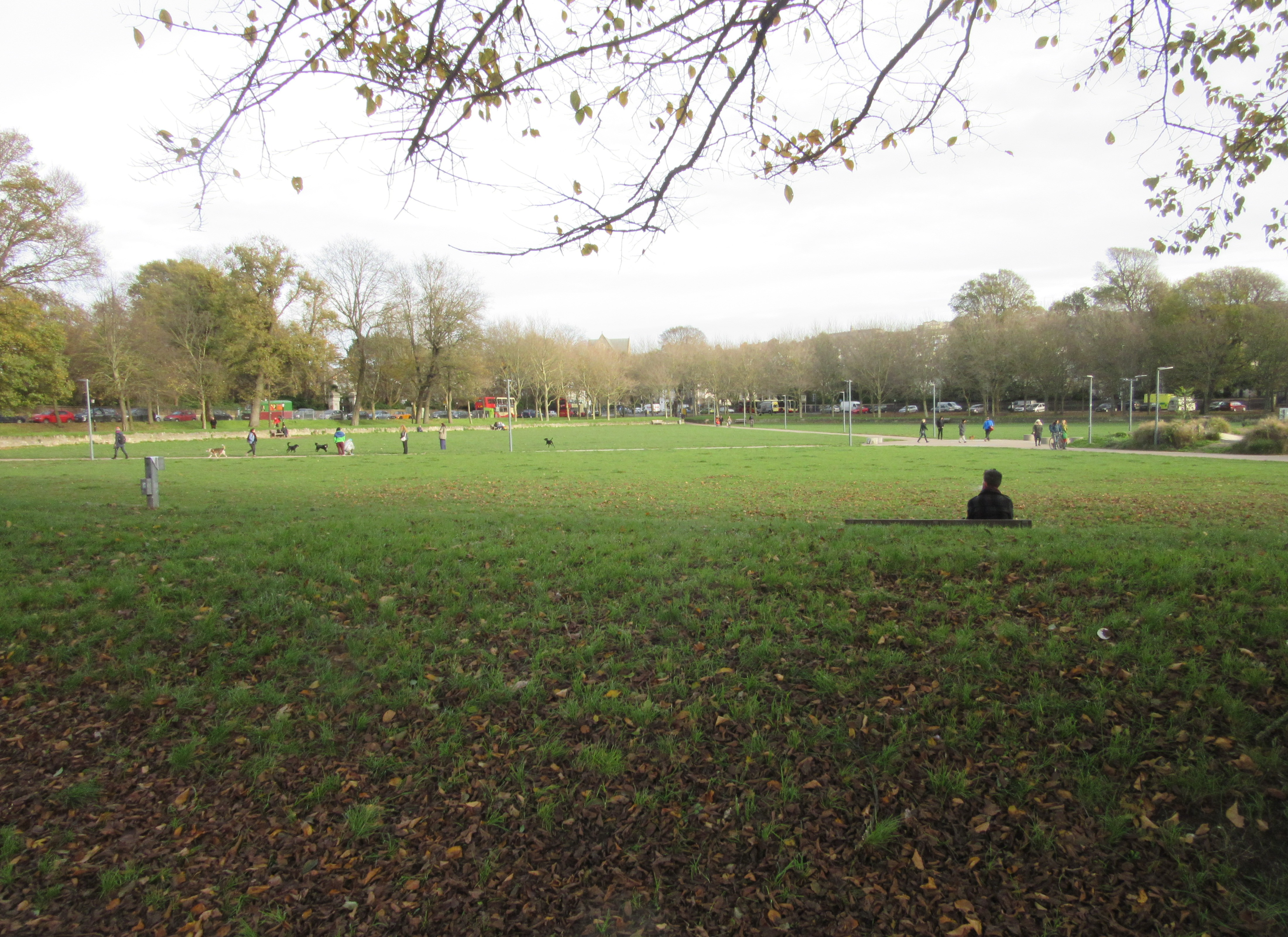 The Level, Ditchling Road/Lewes Road/Union Road, Brighton, City of Brighton and Hove, England. A large area of open space which was given to the town of Brighton in the early 19th century. It is on Brighton & Hove City Council's Local List of Heritage Assets.